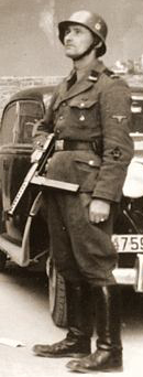 Josef Blösche during the Warsaw Ghetto Uprising